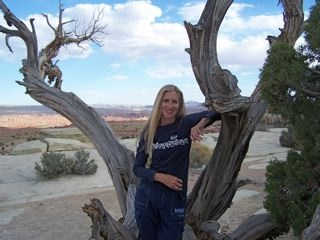 Pam Uschuk in Northern Arizona on the Navajo Nation.